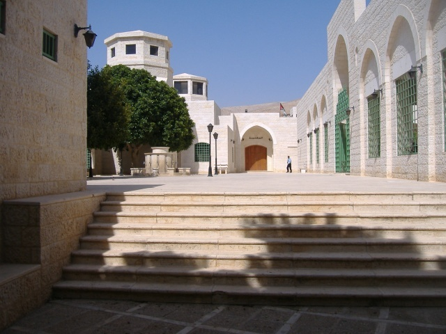 On the way to Pella, in the Jordan Valley. A relatively new mosque housing the tomb of Abu Ubaidah ibn al-Jarrah.